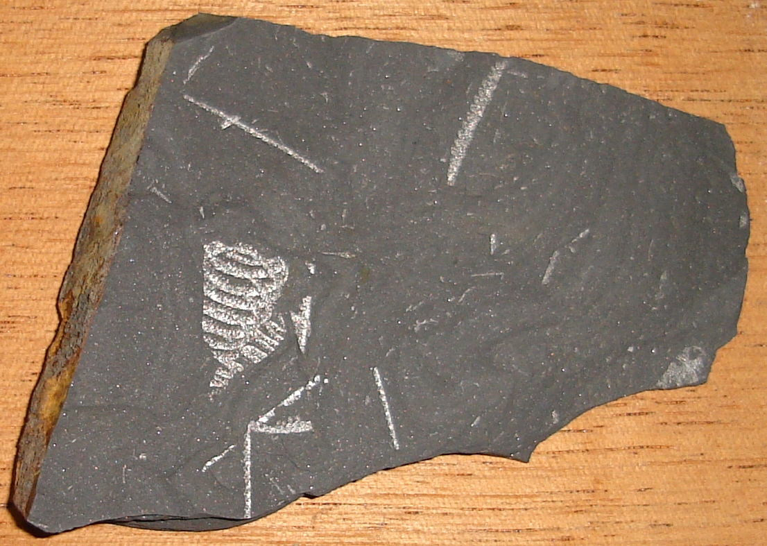 Spirograptus turriculatus on a small piece of slate. Width at the upper end 11.3 mm. Black shale of Late Llandovery age, Litohlavy, Bohemia.